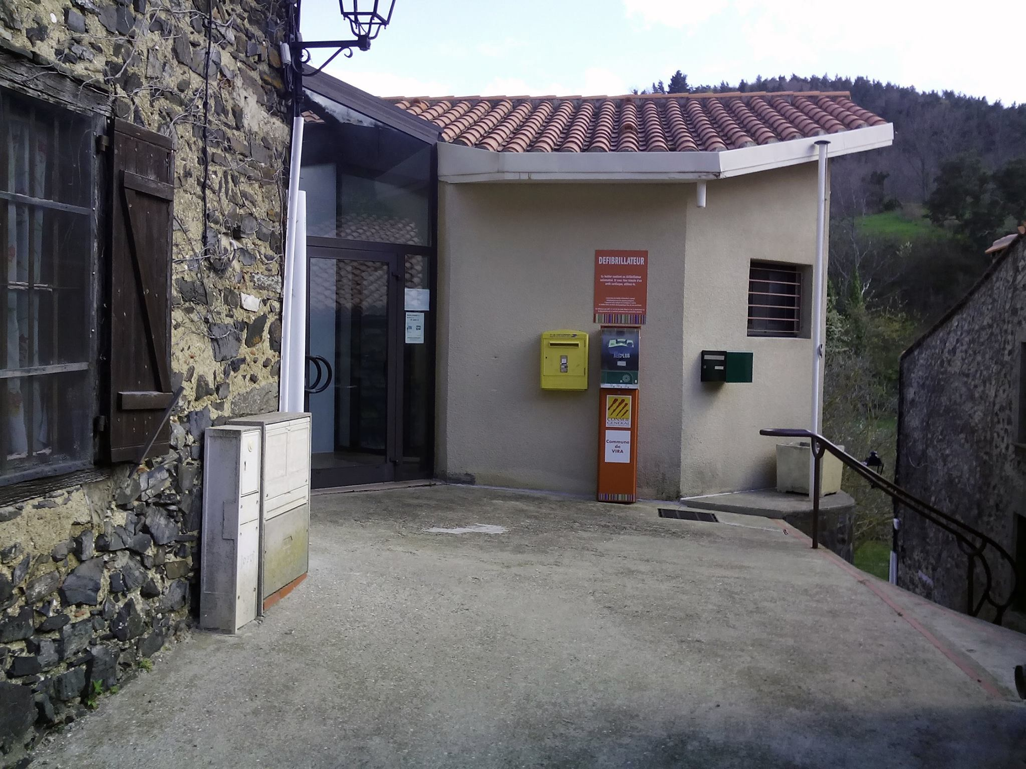 The new town hall in Vira